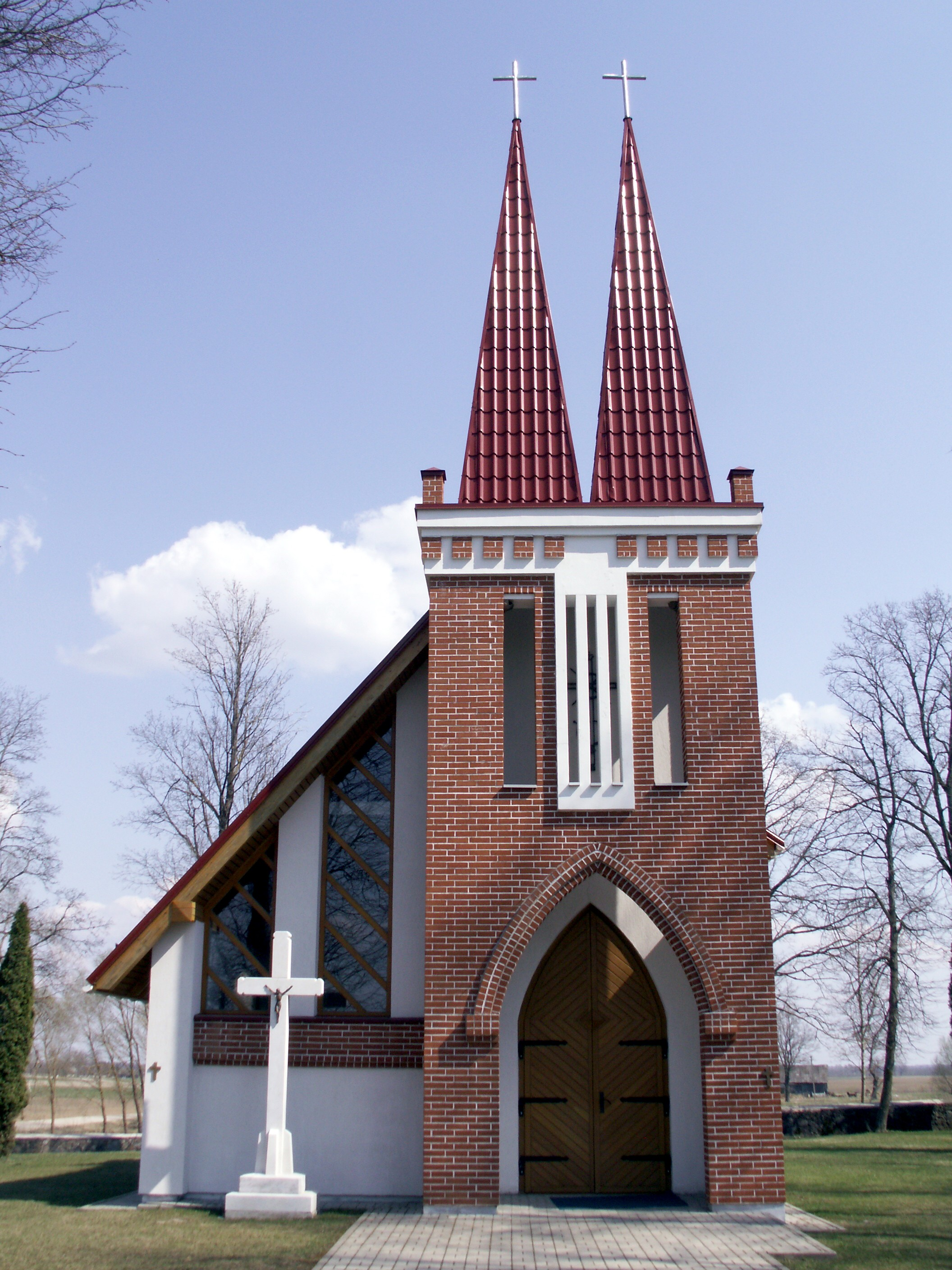 Suostas church, Biržai district, Lithuania